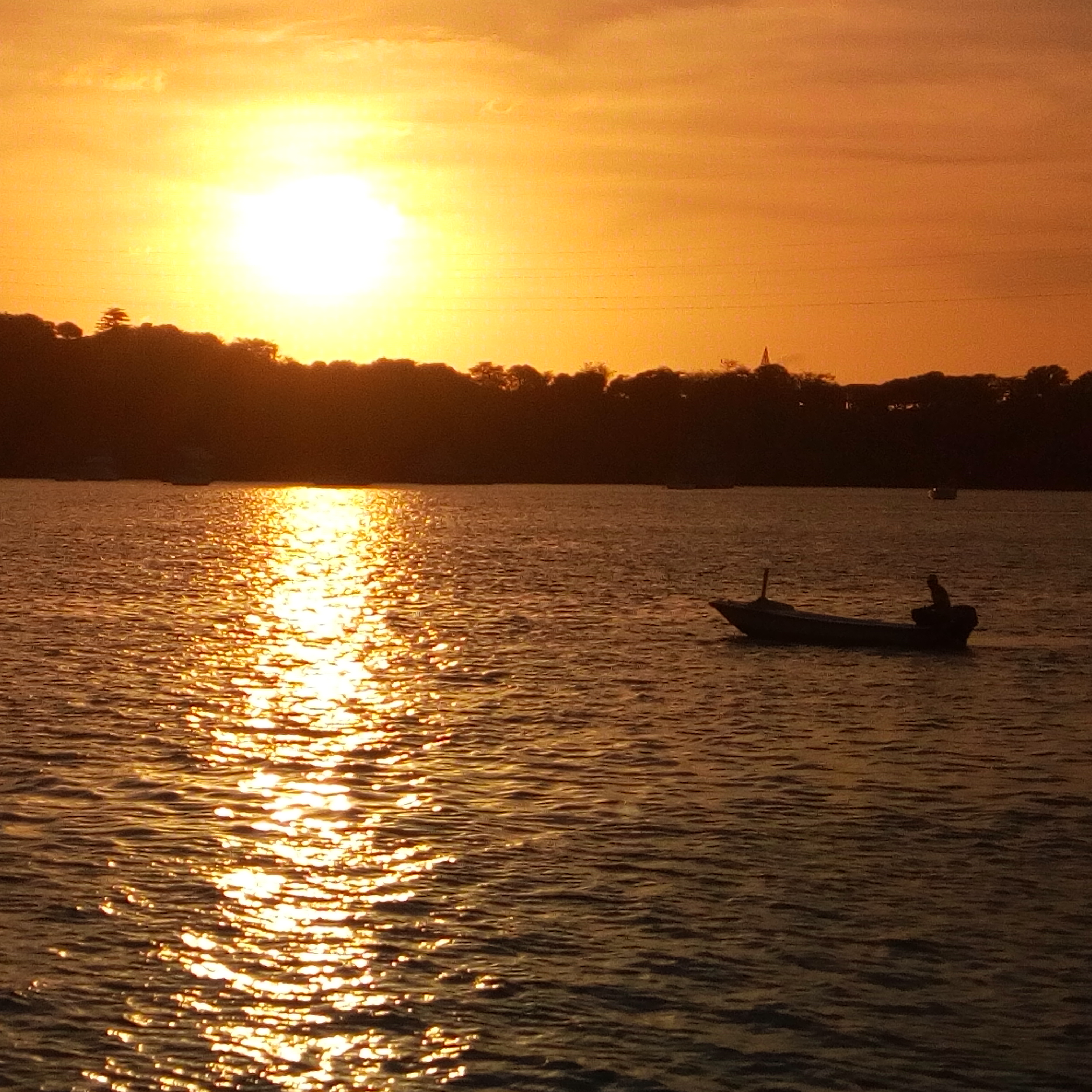 This is an image with the theme "Africa on the Move or Transport" from: Kenya